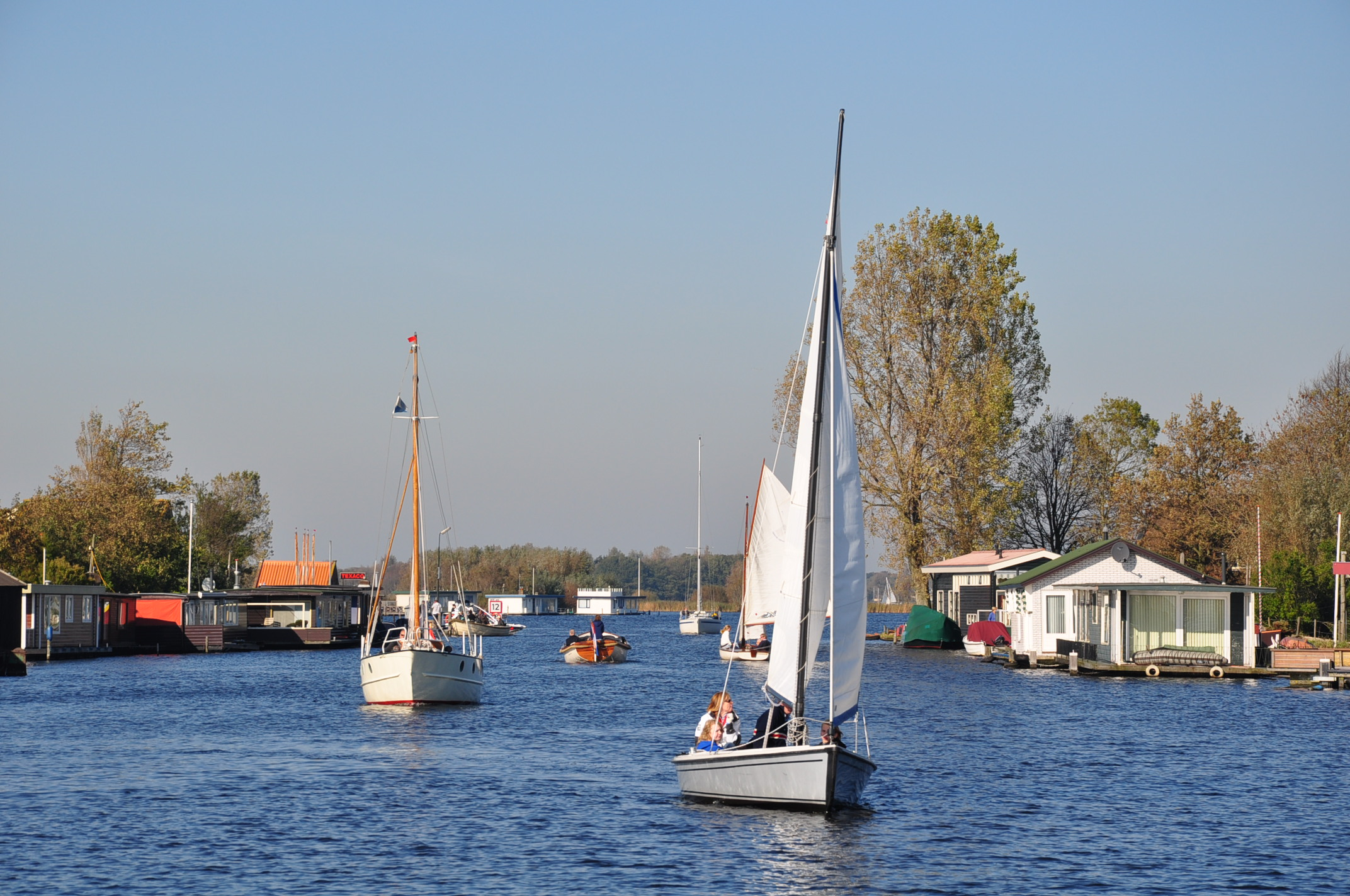 The river Zijp in the municipality of Teylingen (Province South Holland, Netherlands) is only 1 km long and forms the connection between two of the Kaag lakes: the Vennemeer and Zweiland. The picture shows the northern part of the Zijp, with houseboats on both shores, looking towards the Zijp's mouth in Kaag lake 'Zweiland'.